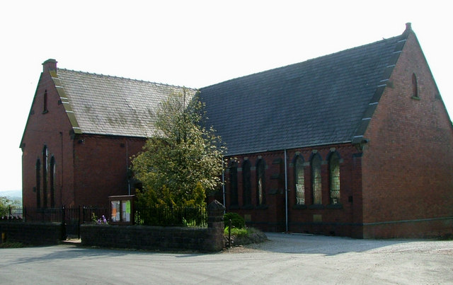 Rushton Methodist Church built in 1898.